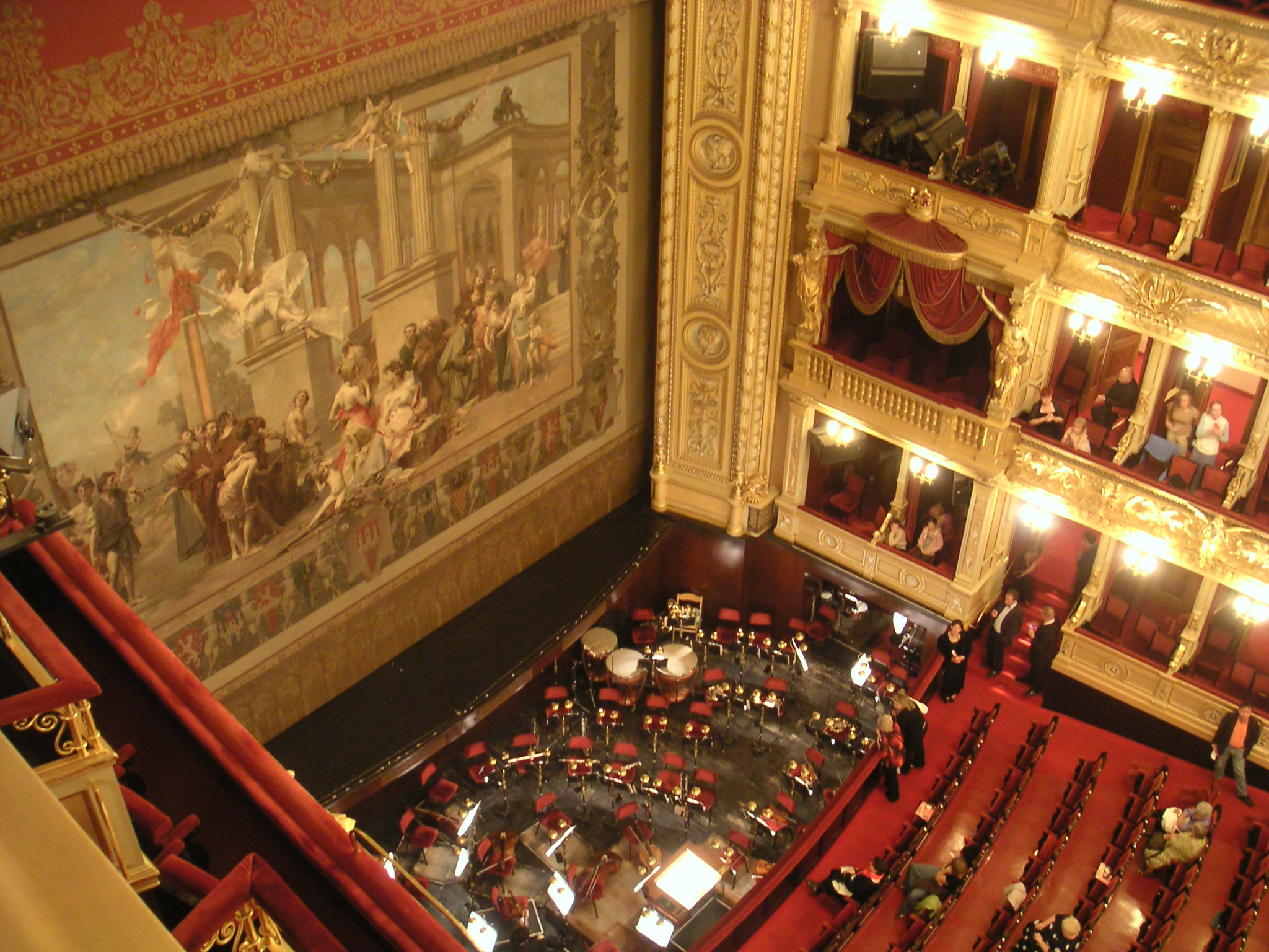 Nationaltheater von innen (Bühnenbild) / National Theatre (inside)